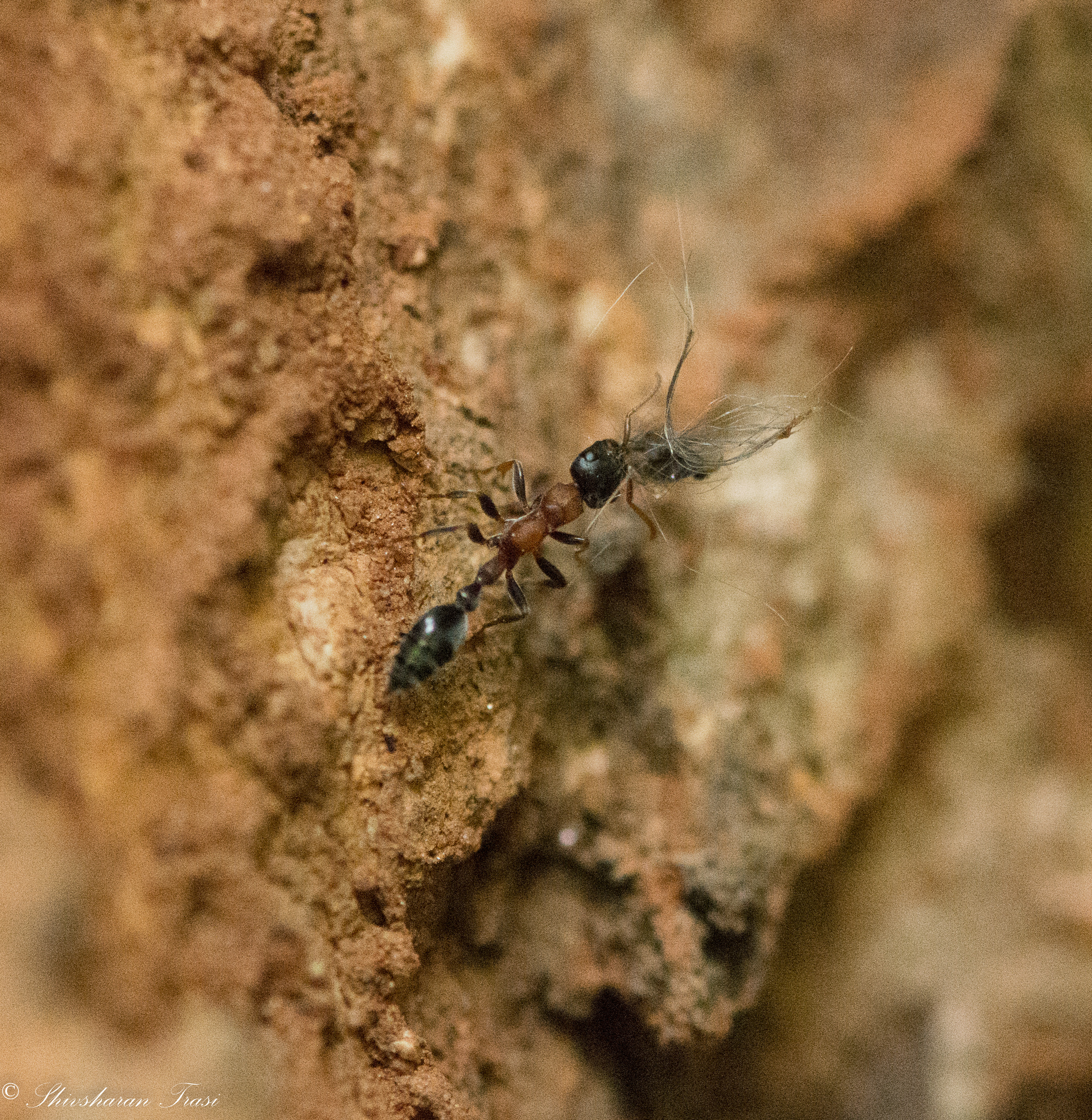 Tetraponera Rufonigra brings home an insect after foraging